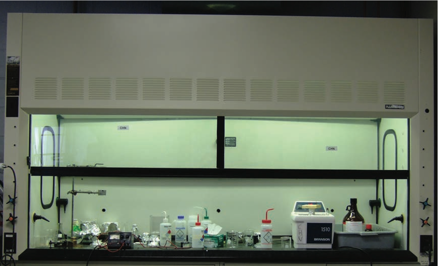 Figure 11. Laboratory bypass hood (note the by-pass chamber above the sash). The bypass hood maintains a constant hood face velocity and incorporates a bypass grille located above the sash opening. When the sash is wide open it blocks the bypass grille, allowing all of the air to flow through the hood opening. As the sash is lowered, it uncovers increasingly greater amounts of the bypass grille, allowing increasing amounts of air to flow through this alternative path. If it is designed and operated properly, the amount of air flowing through the bypass grille is just sufficient to maintain a constant face velocity. Typically, however, this constant velocity can be maintained over a certain part of the sash’s total range.